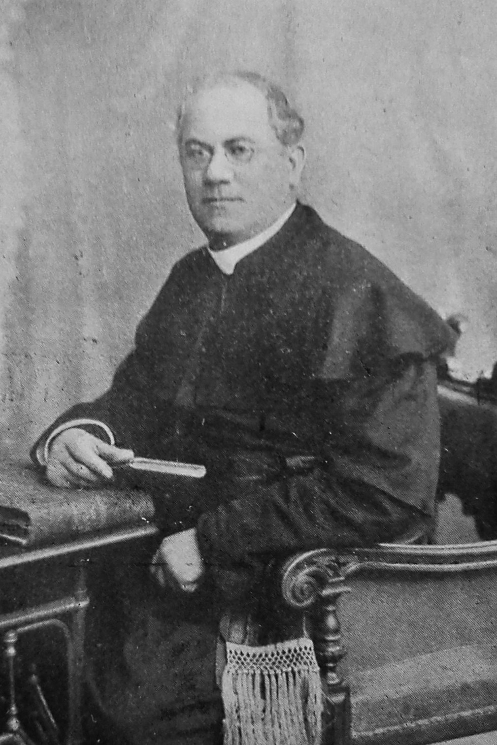 Franciszek Renkawitz from Ujscie.